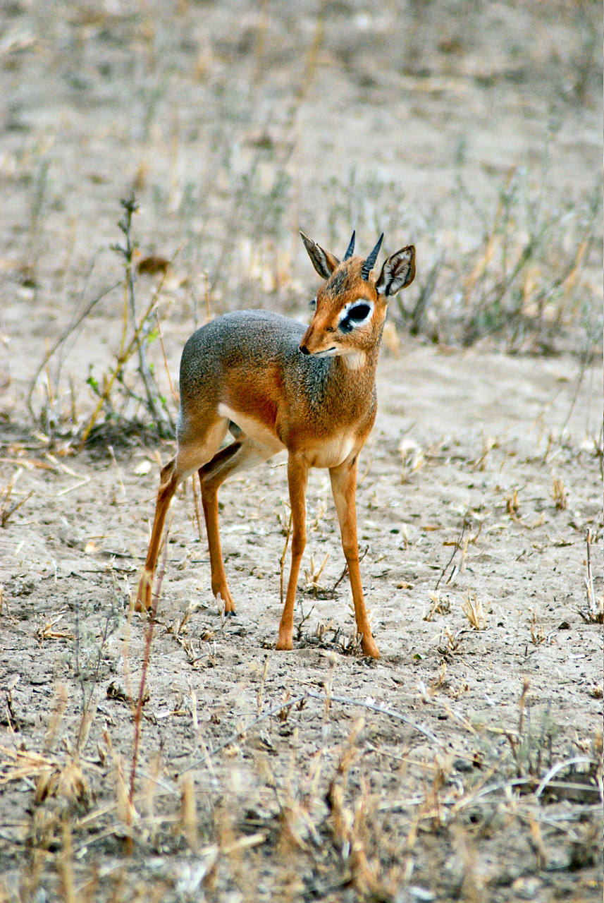 Dik-Dik, male (Genus Madoqua). Tarangire national Park, Tanzania.